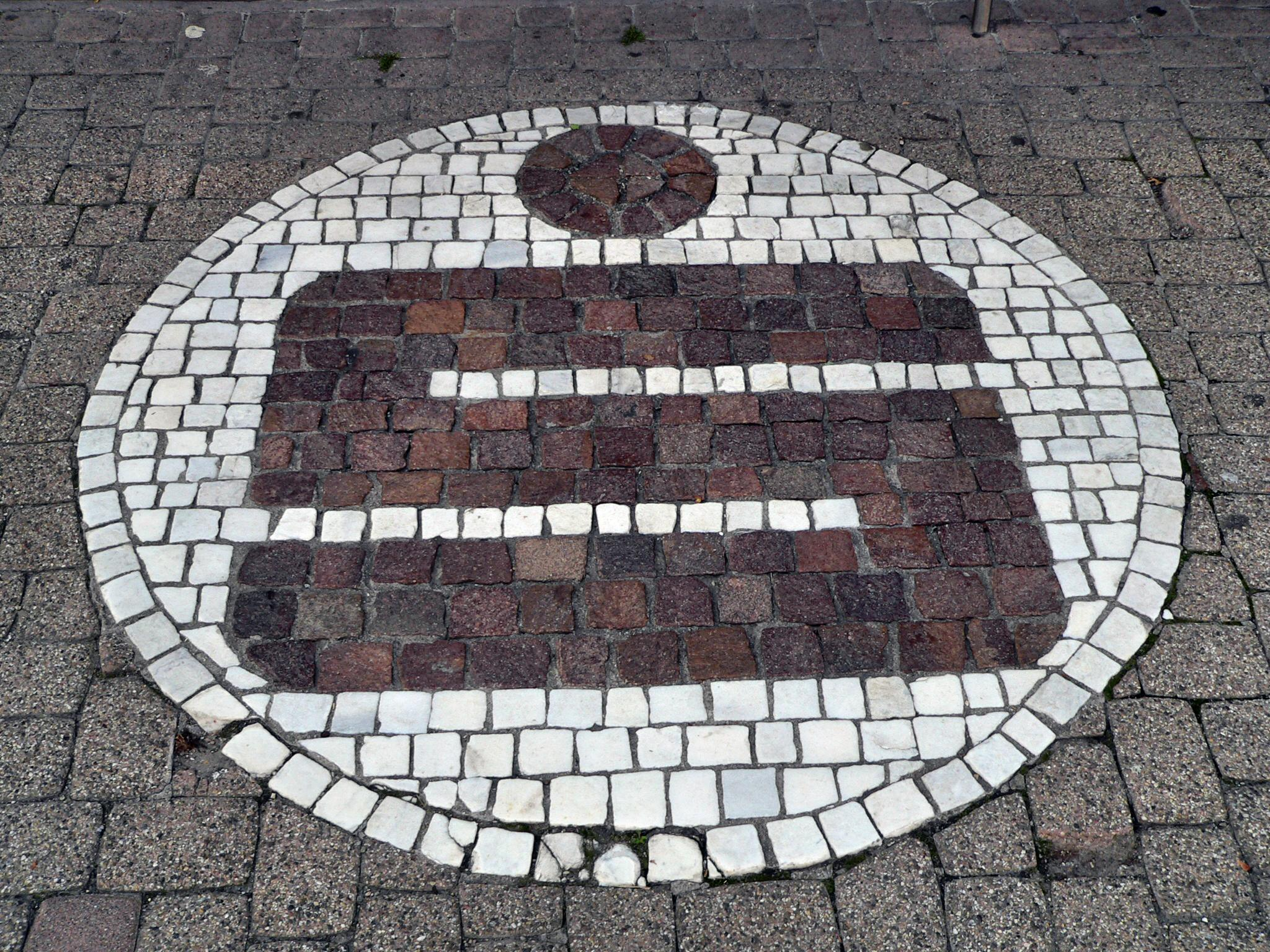 Cobblestone mosaic showing the sign of a bank (Sparkasse) in Triberg, Germany